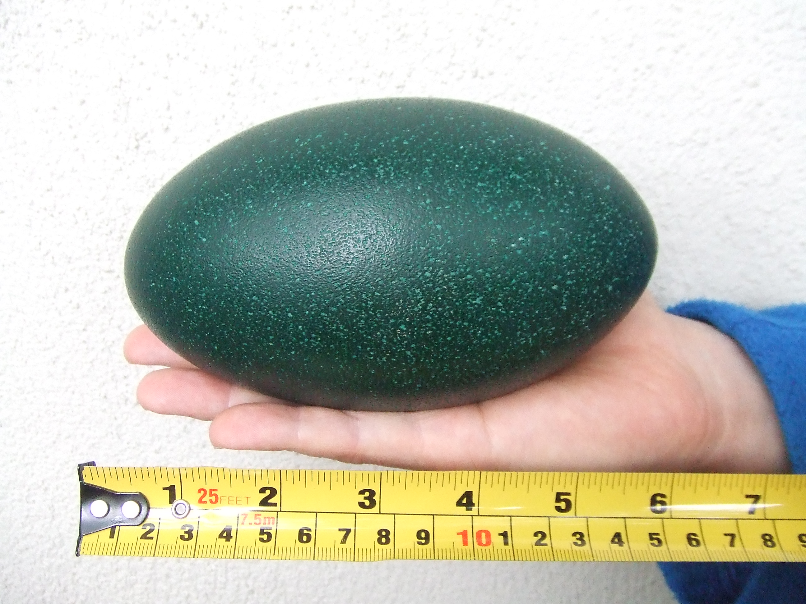 Emu egg purchased at the farmers' market in Mountain View, California.